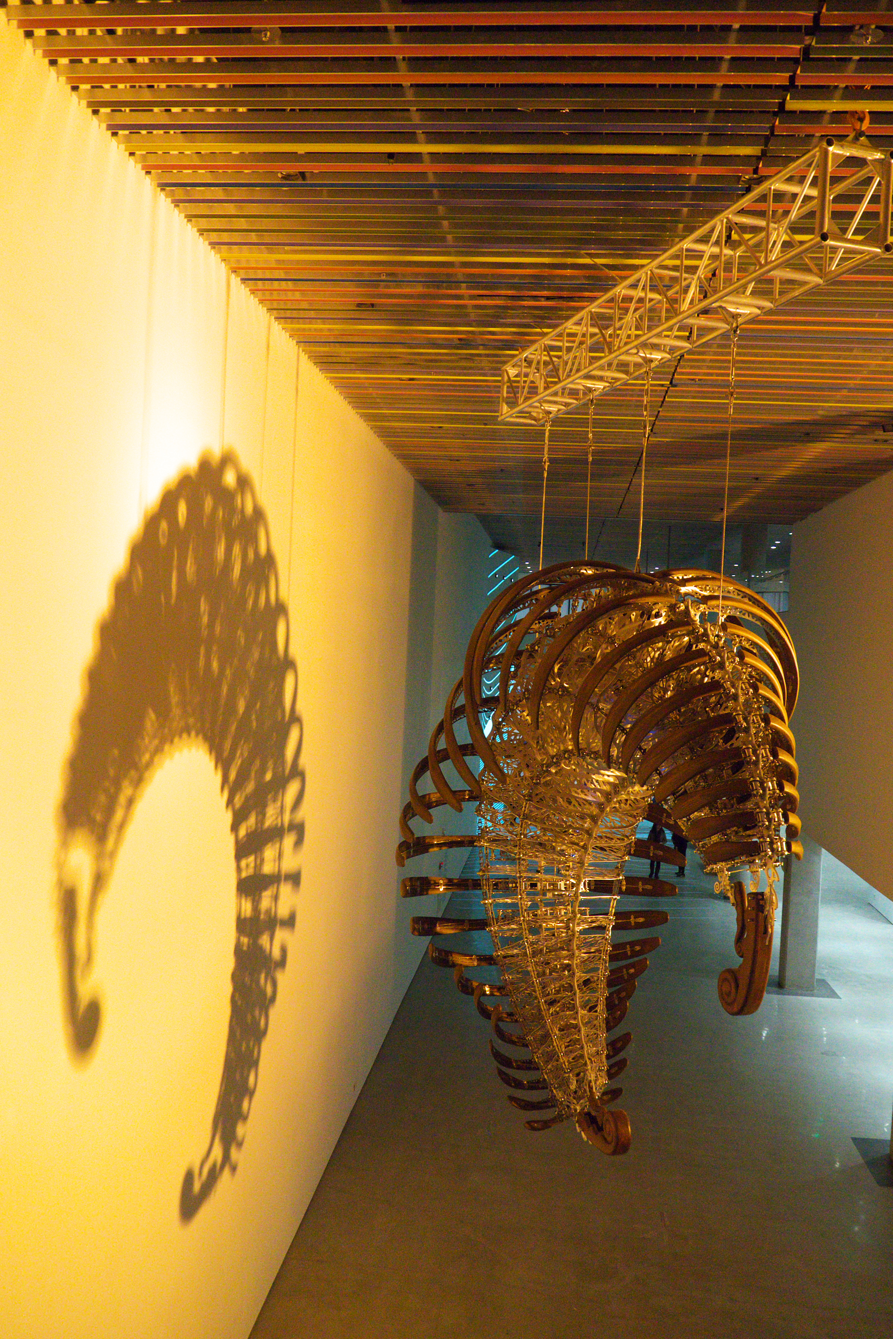 The brand new Seoul branch of the National Museum of Modern and Contemporary Art, Korea opened on Nov. 13, 2013. 39 artists (90% local 10% international) bring a fresh perspective to Korea with pieces across a variety of mediums, with many that invite audience interaction and participation.